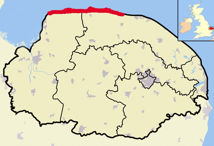 Map of the County of Norfolk, England, United Kingdom showing North Norfolk Coast SSSI